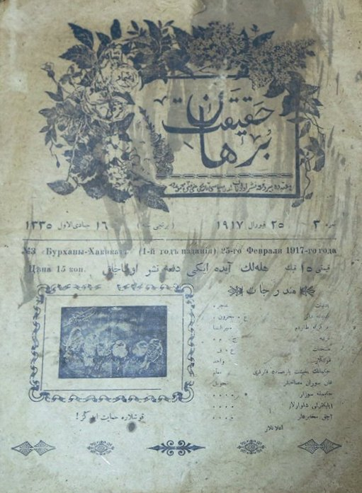 Bürhani-Həqiqət